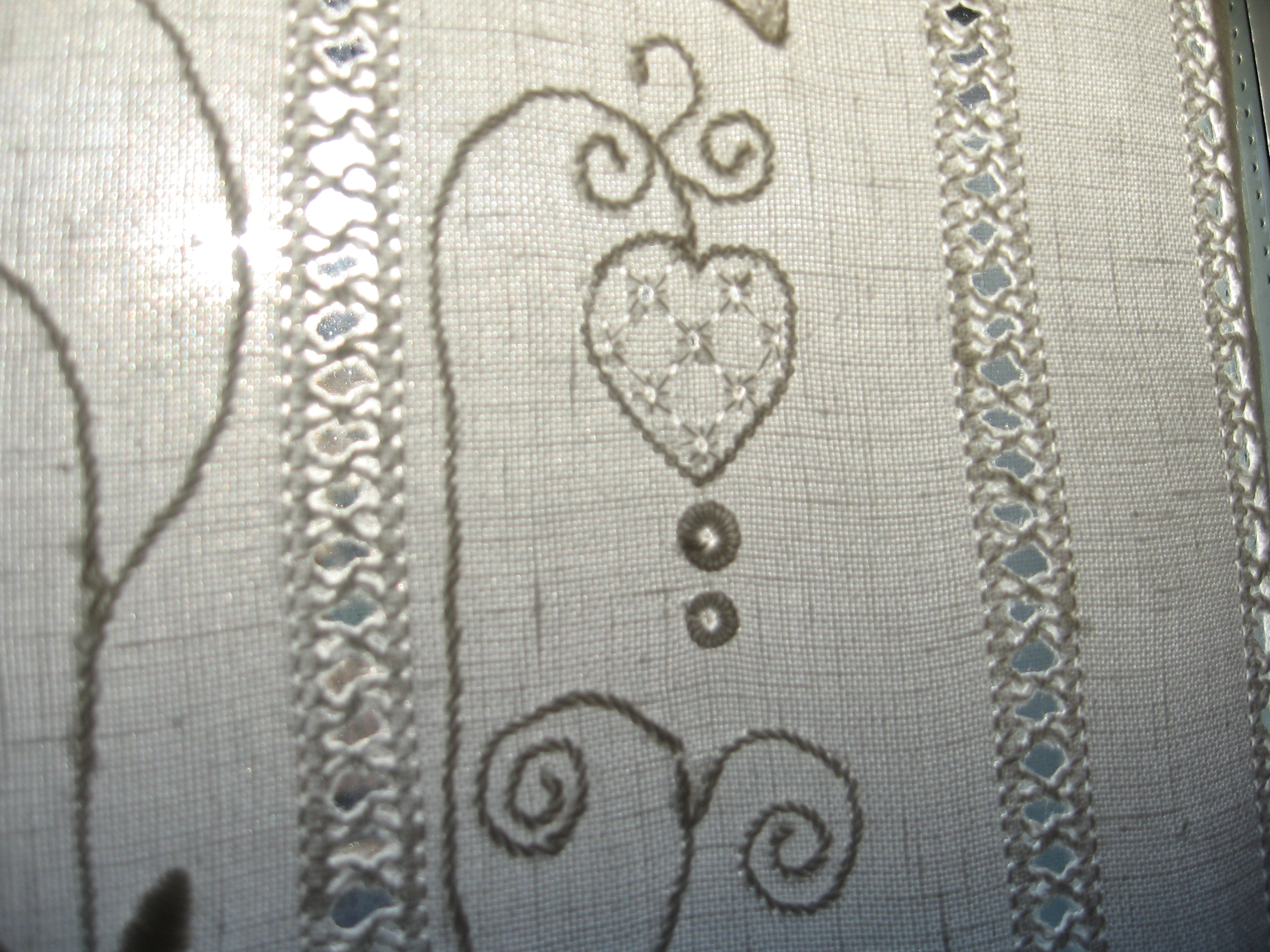 embroidery